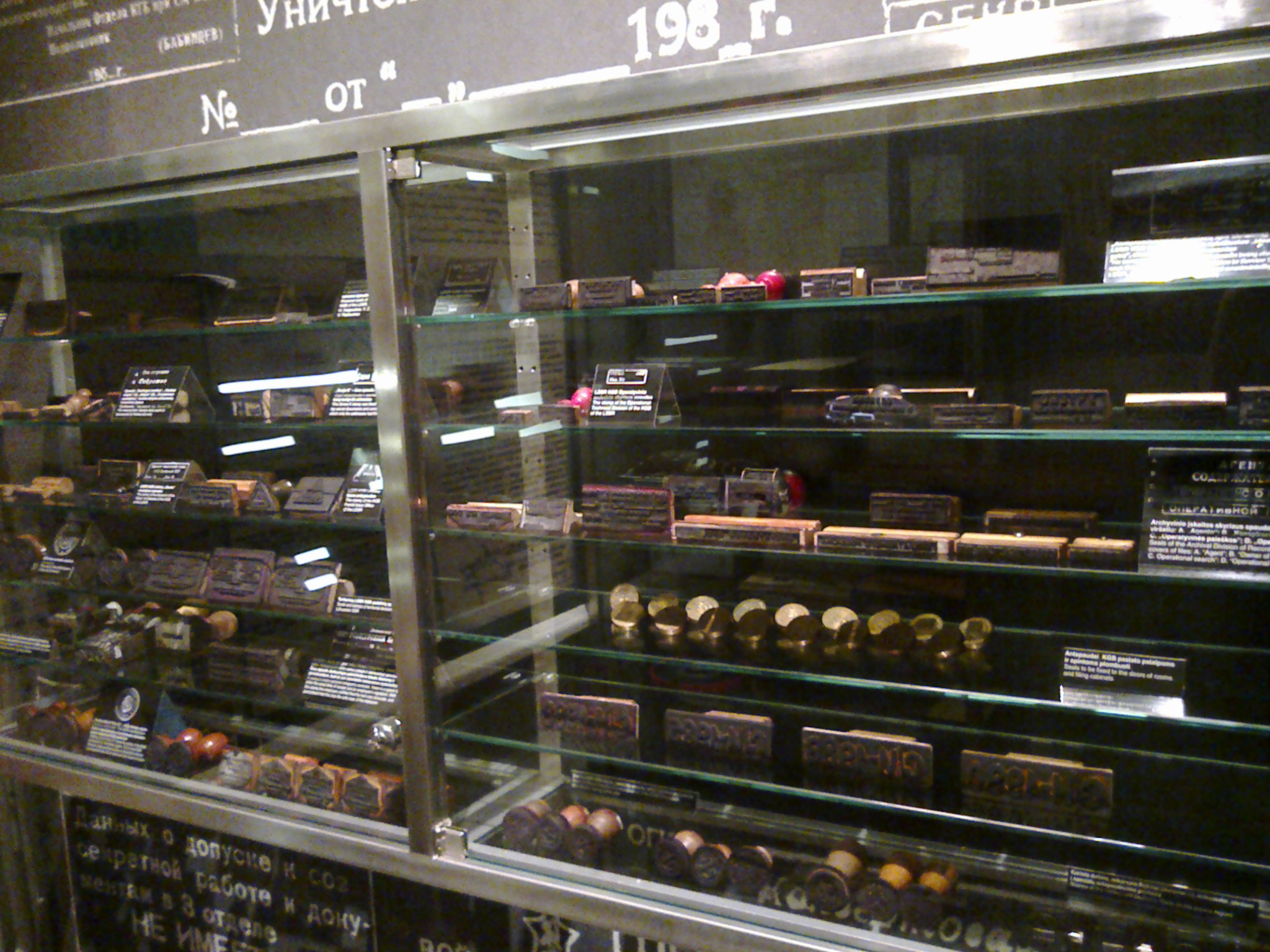 rubber stamps seen in Museum of Genocide Victims Vilnius